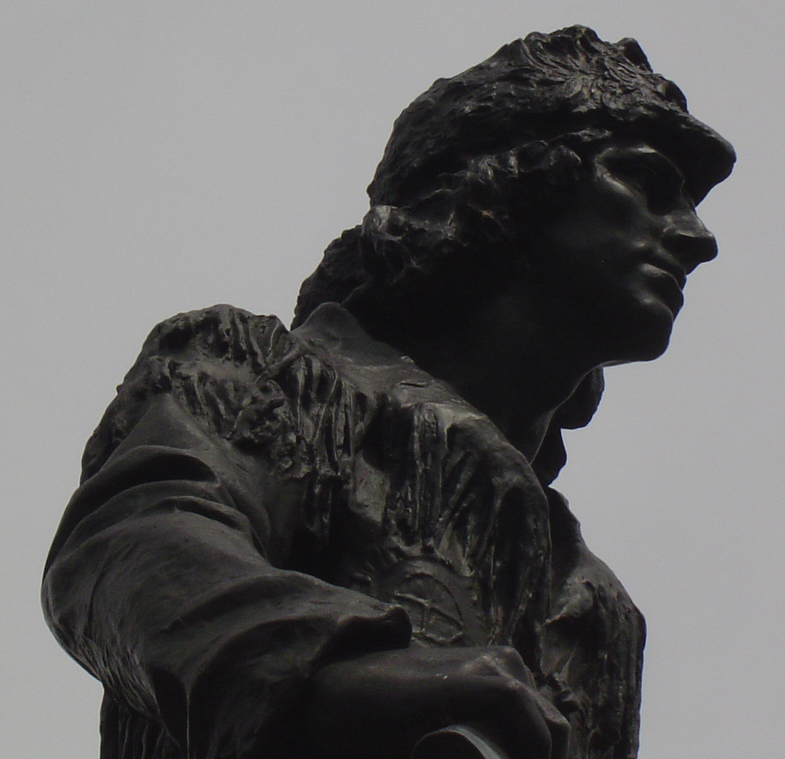 Head and torso detail of statue of Daniel Boone by Enid Yandell, on Eastern Parkway in Louisville.